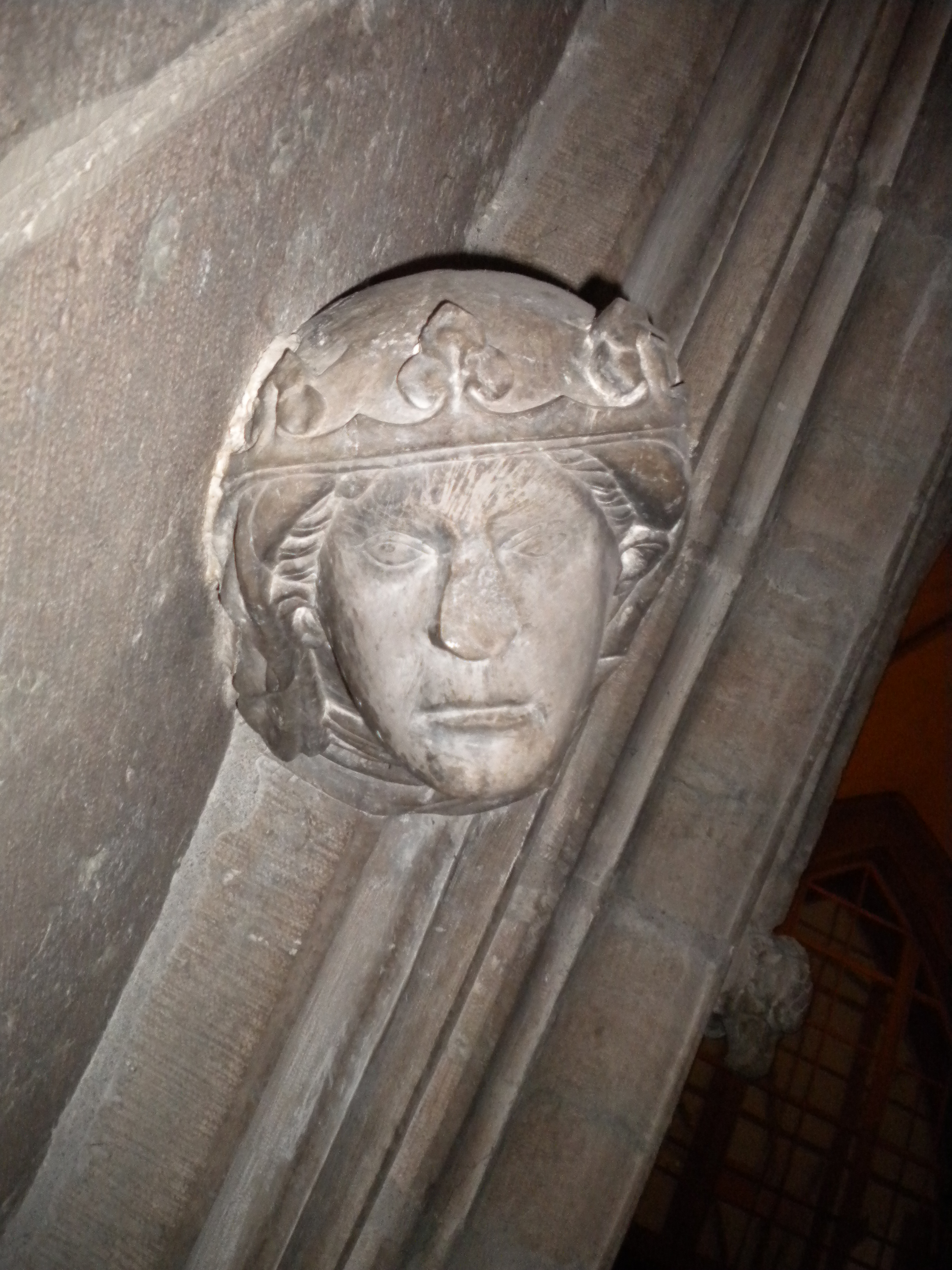 Stone bust from about 1360 of Duchess Ingiburga (as identified by Prof. Jan Svanberg), mother of King Magnus IVPlace: Linköping Cathedral, Sweden